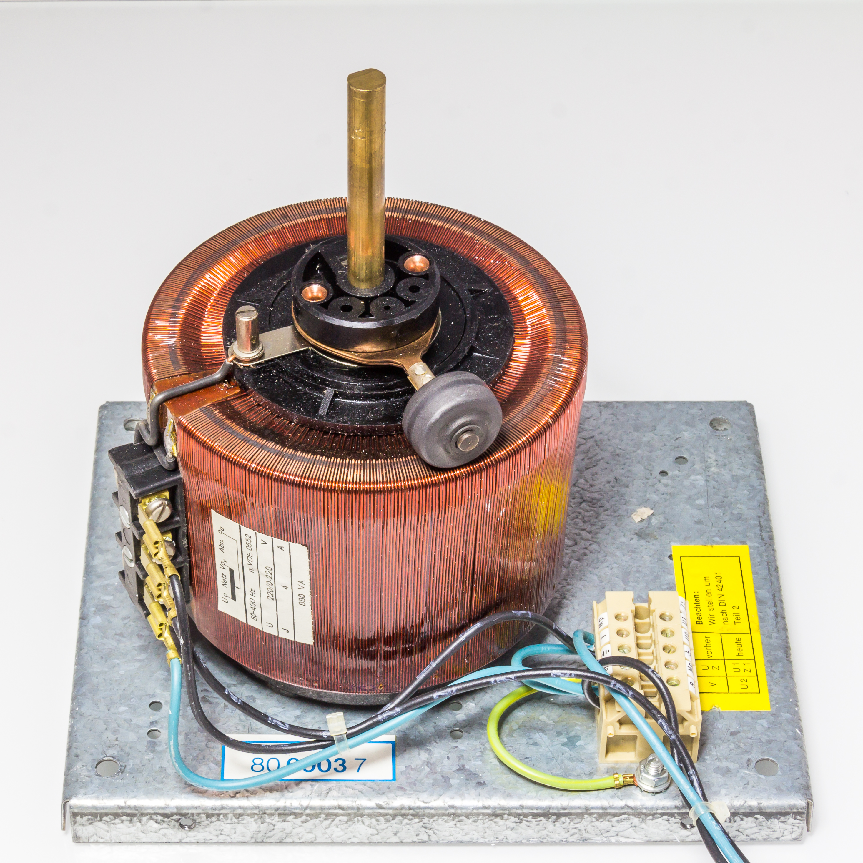 Variable autotransformer 0-220 V, 4 A, 880 VA; manufacturer: Fischbach GmbH, Neunkirchen, pre-1980